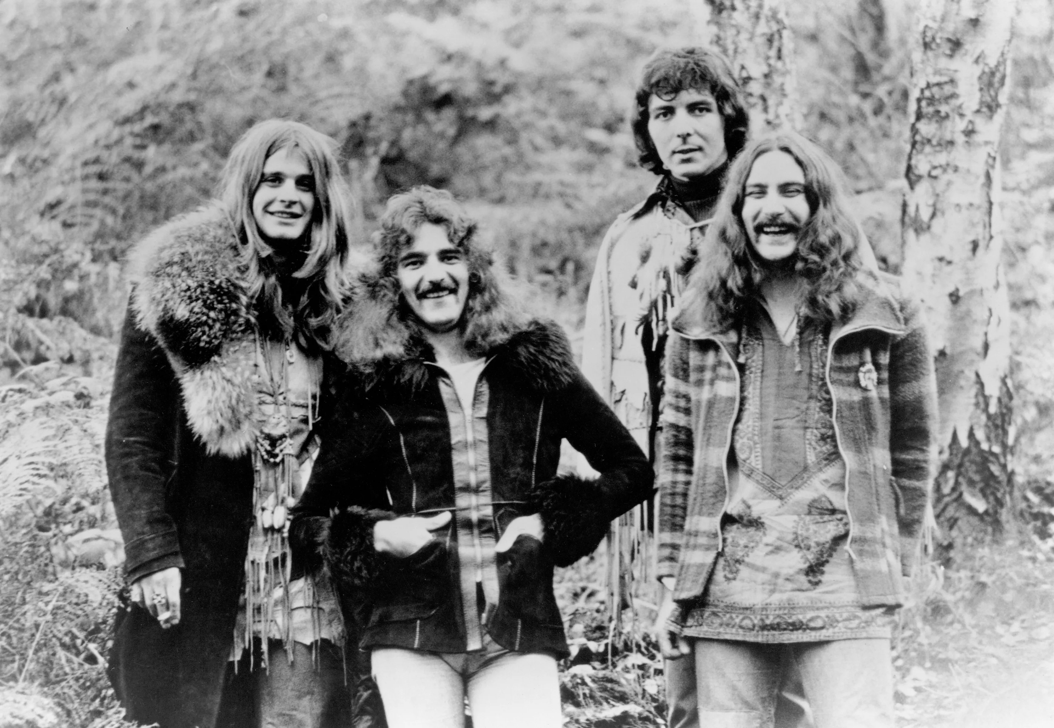 British heavy metal band Black Sabbath.